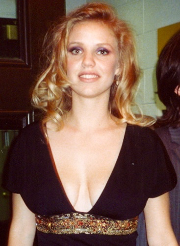 Kelli Garner cropped photo